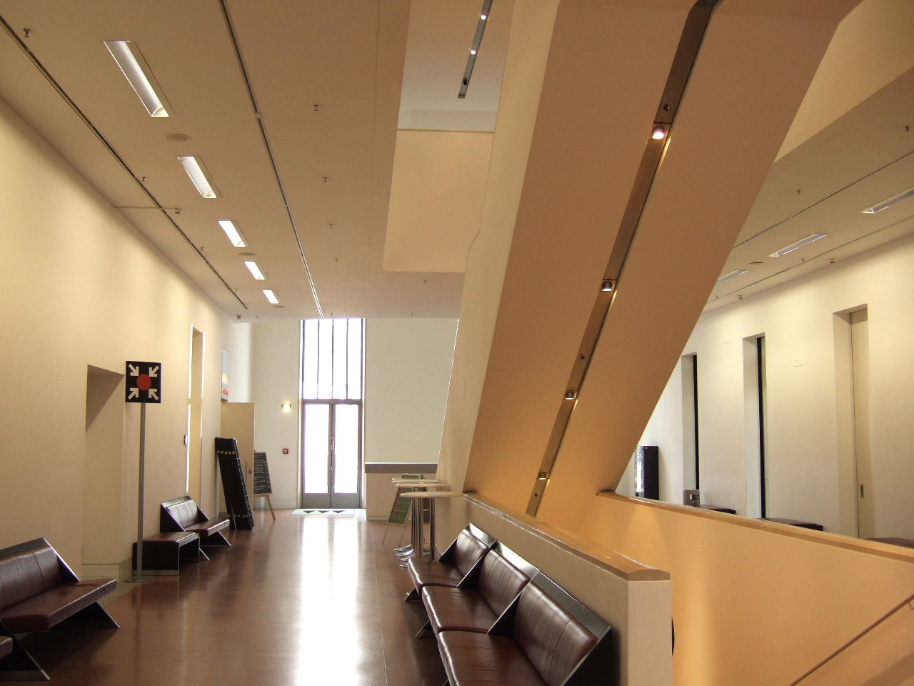 Art and Exhibition Hall of the Federal Republic of Germany in Bonn – interior view